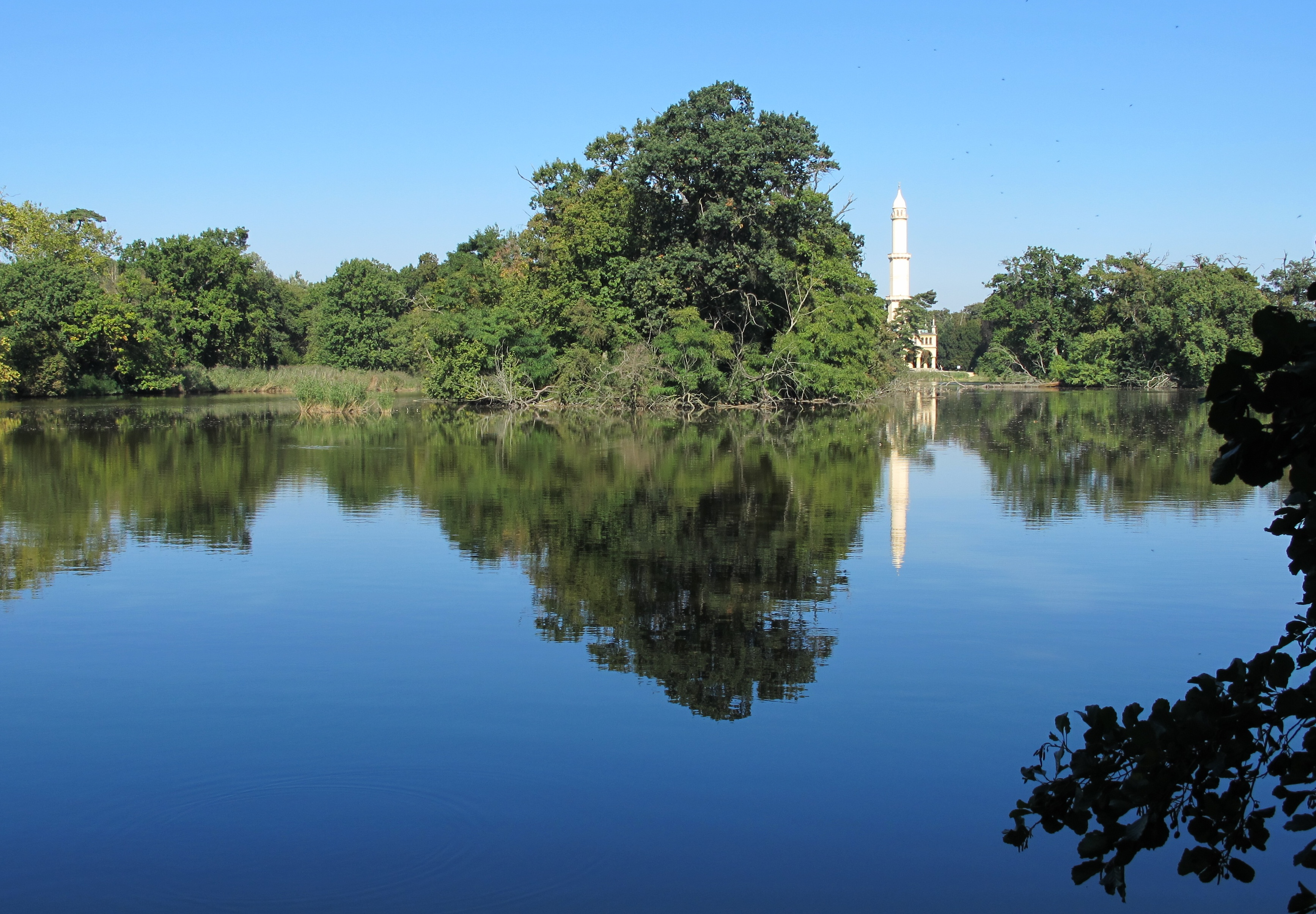 Pond between Lednice castle and Minaret in national nature reserve Lednické rybníky, Břeclav District